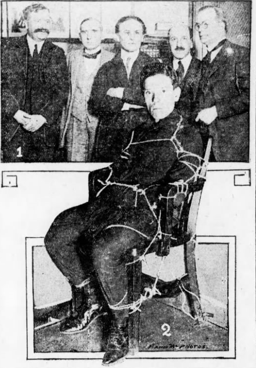 The medium Nino Pecoraro tied to a chair. The magician Harry Houdini can been seen in the background (middle).